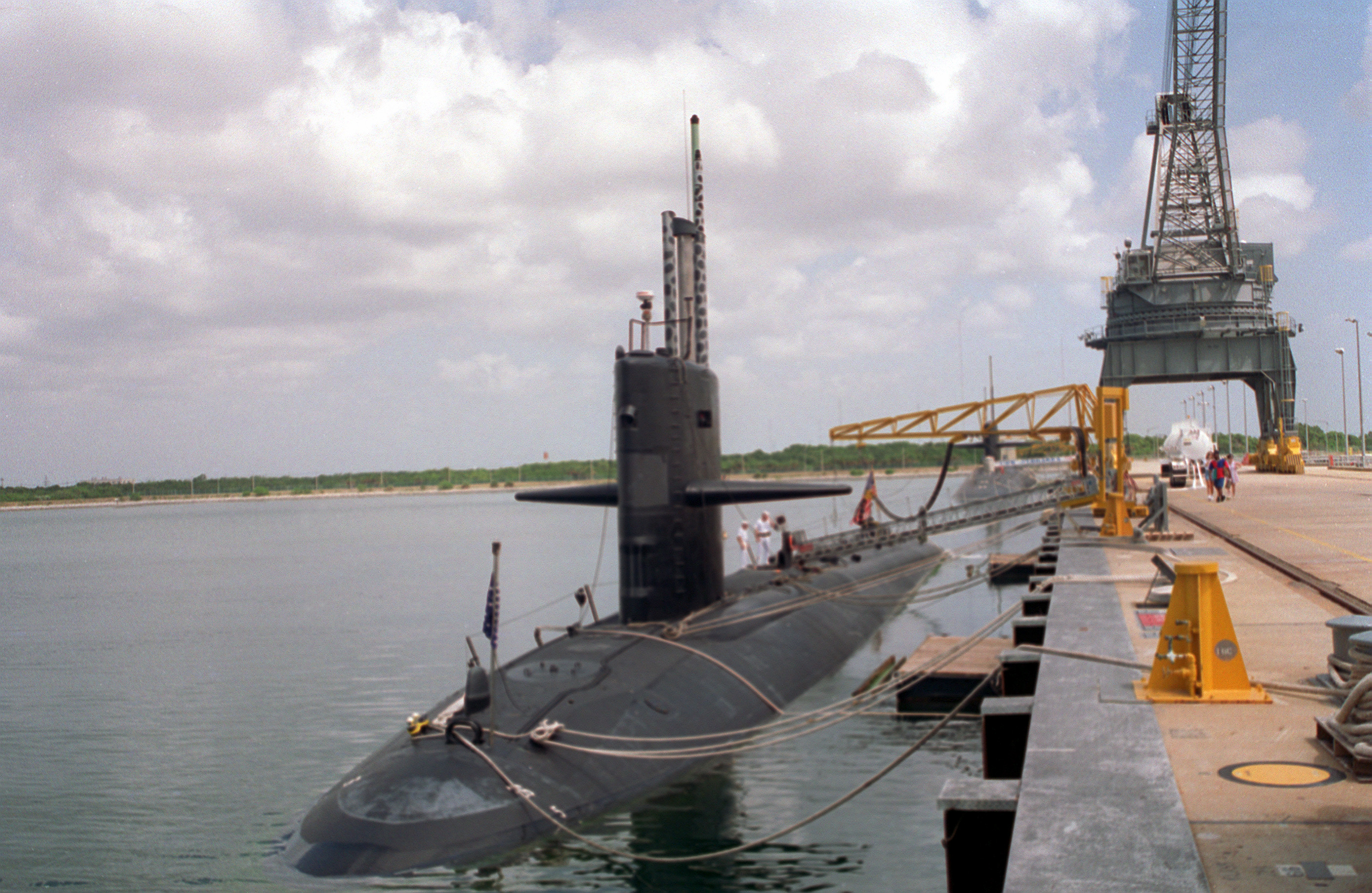 A port bow view of the nuclear-powered attack submarine USS L. MENDEL RIVERS (SSN-686) moored at a pier.Location: PORT CANAVERAL, FLORIDA (FL) UNITED STATES OF AMERICA (USA)